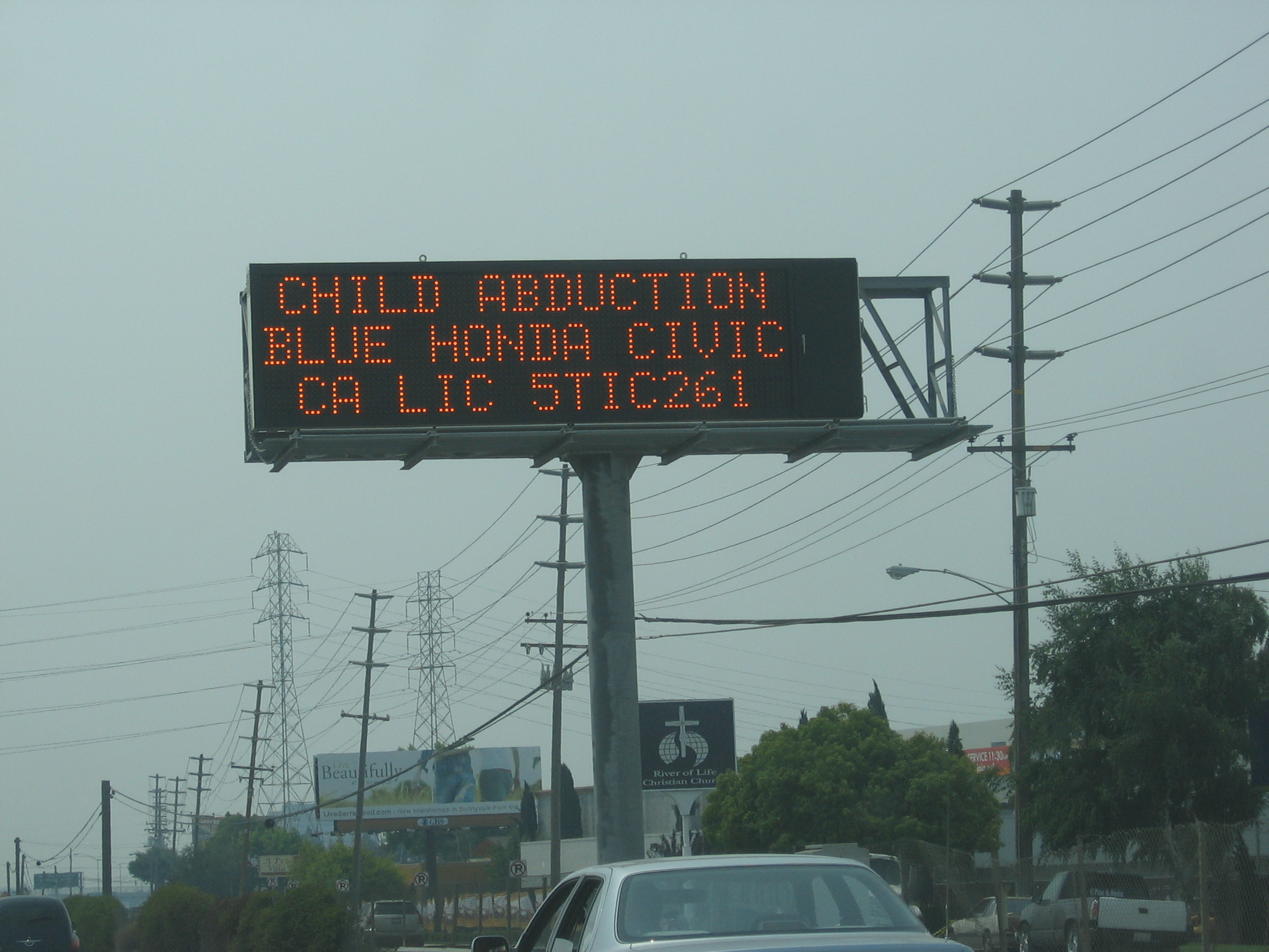 AMBER Alert highway sign alerting motorists to a suspected child abduction in Northern California.